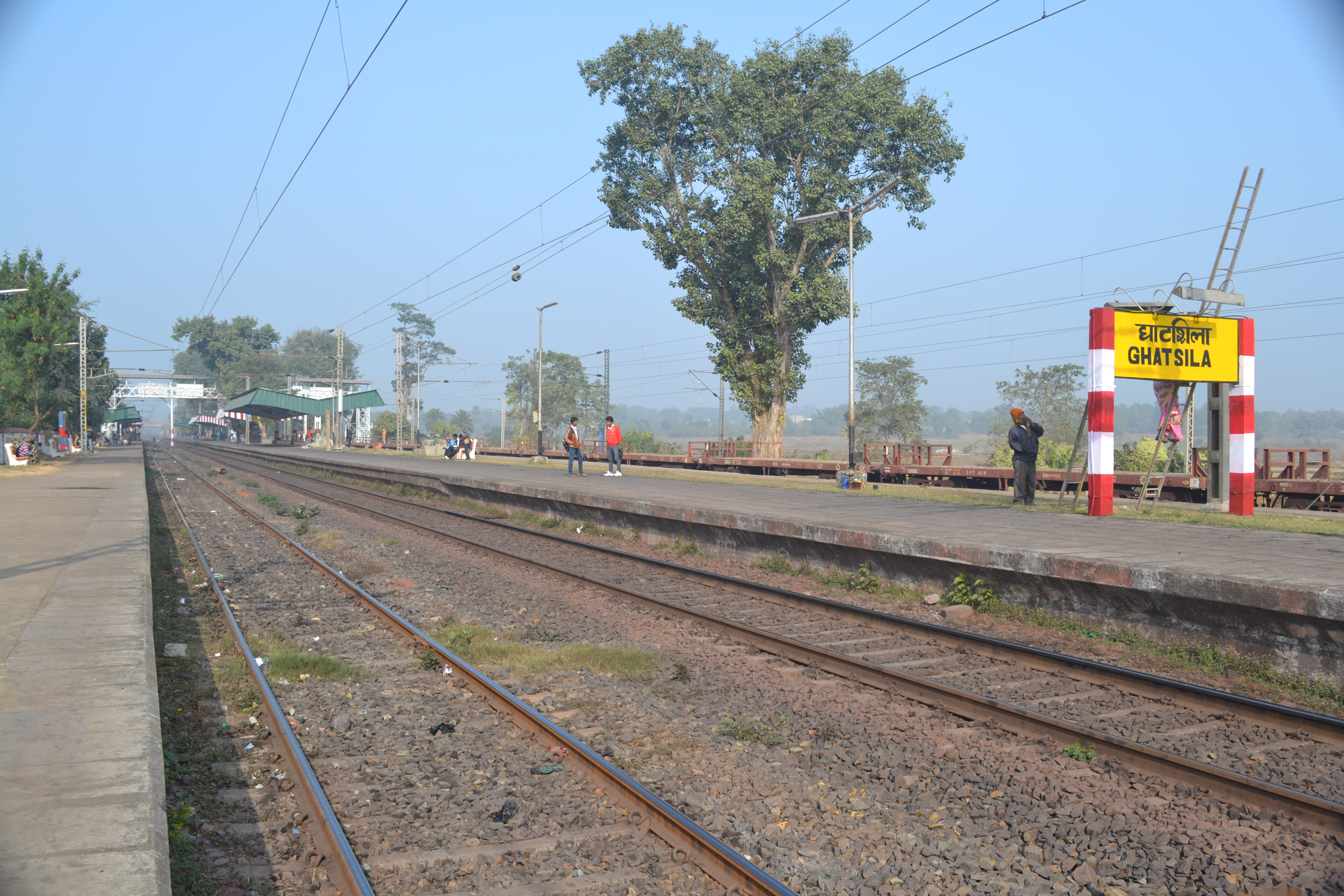 Ghatshila Railway Station, Jharkhad